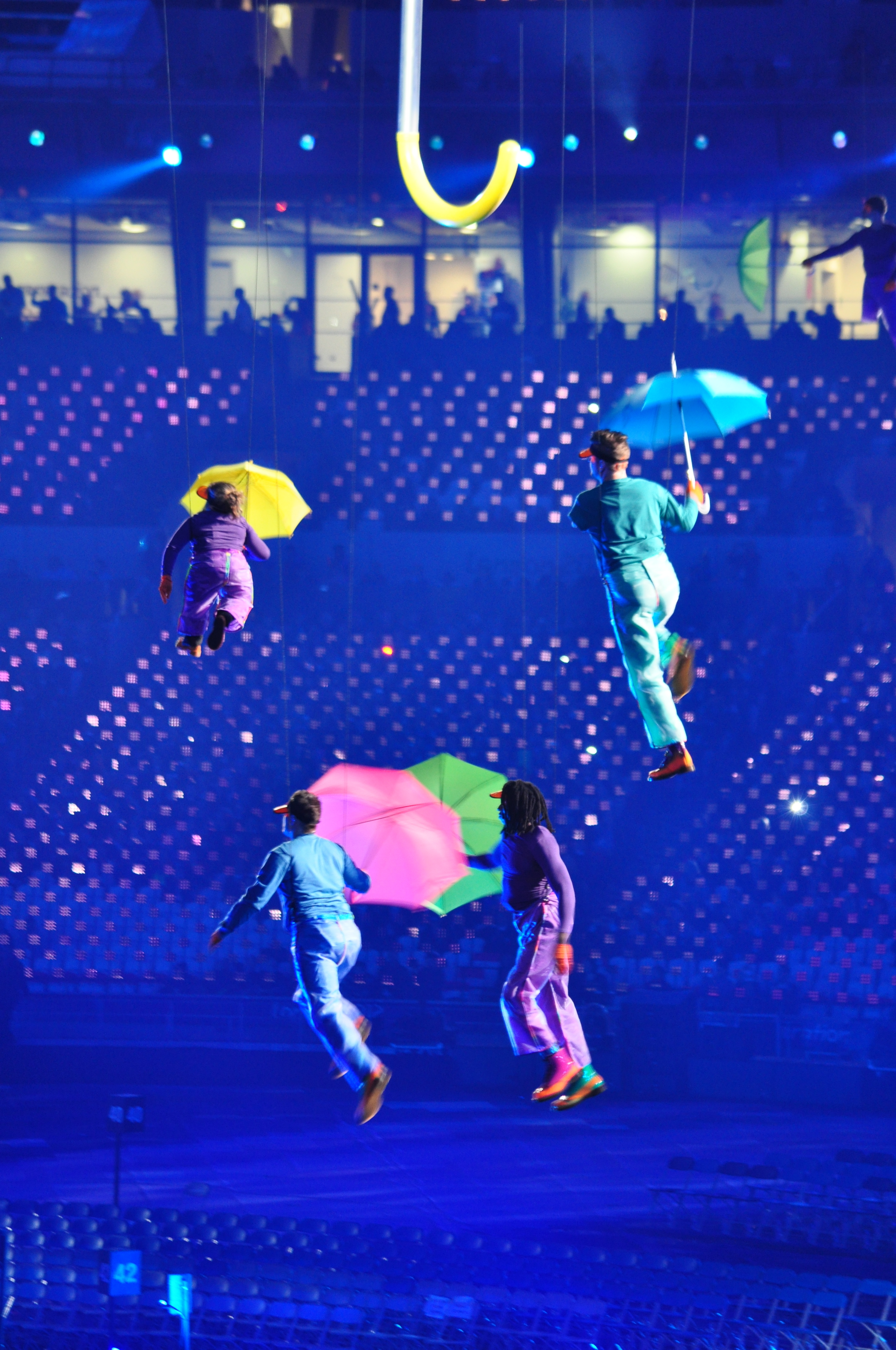 Flying around the paralympic opening ceremony